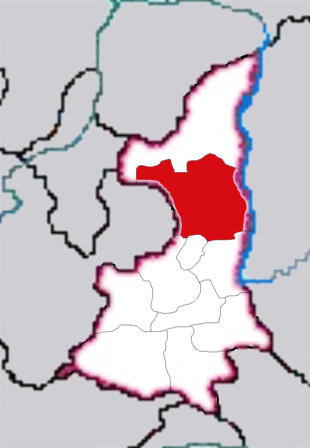 Maps of Shaanxi Province of China